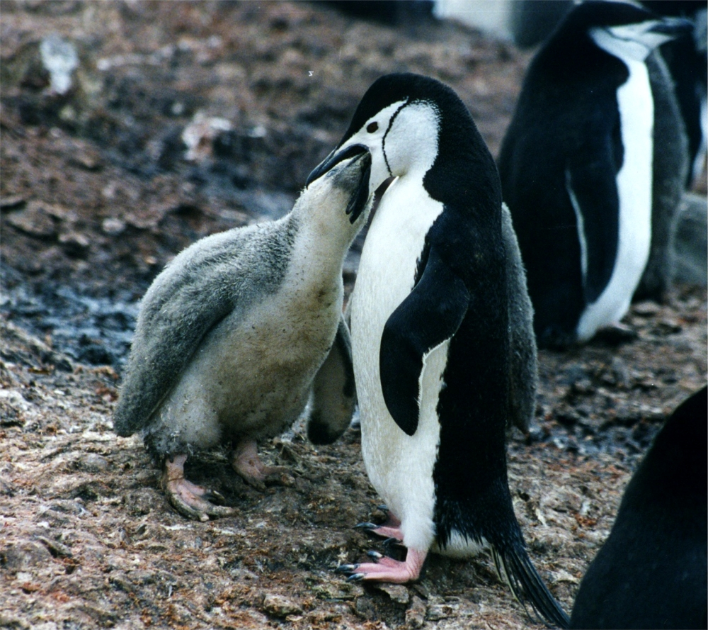 Chinstrap Penguin feeding a chick. The image is a scan of my old print. The image was taken by Brocken Inaglory